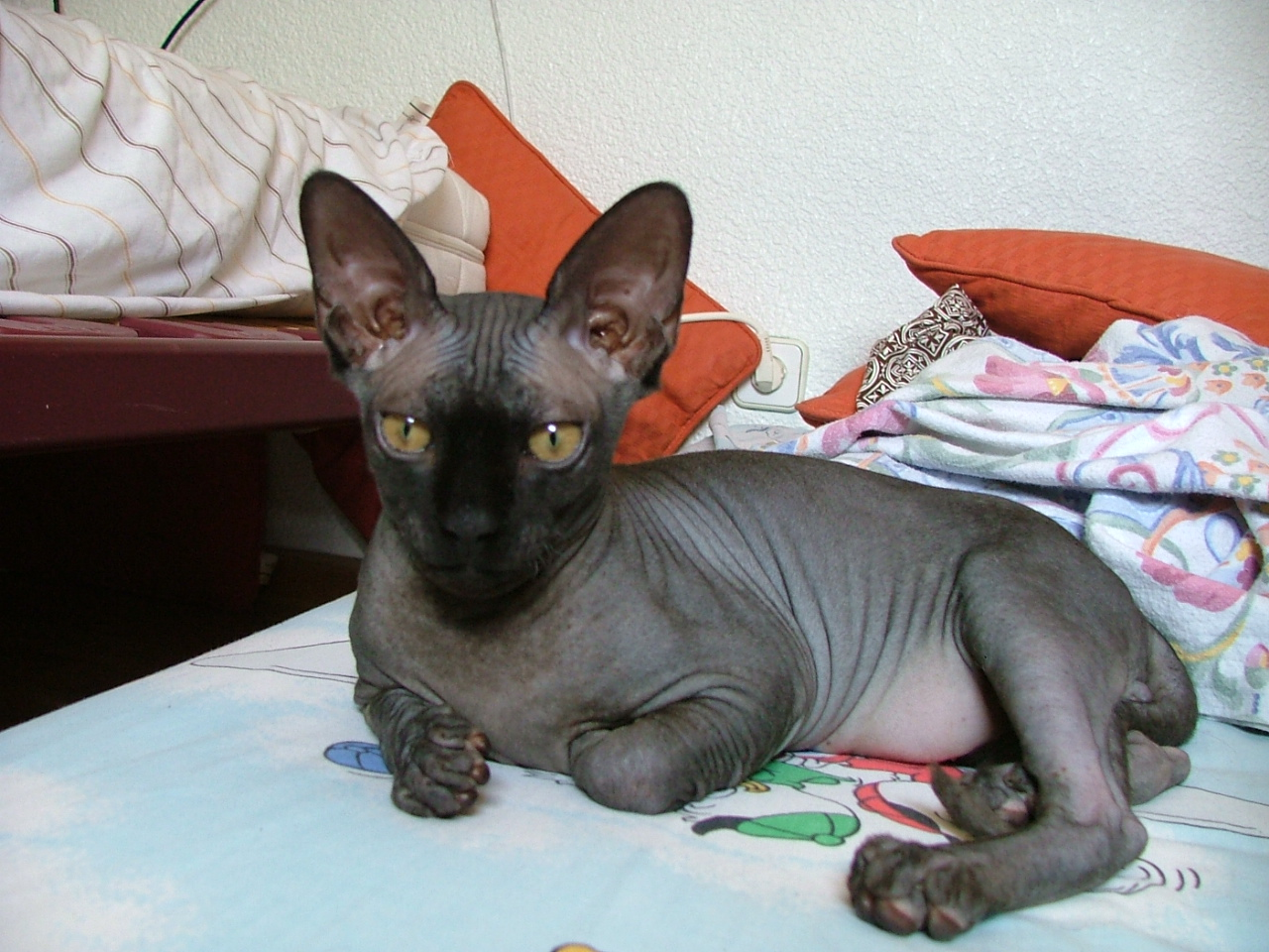 Sphynx cat (Gato esfinge)